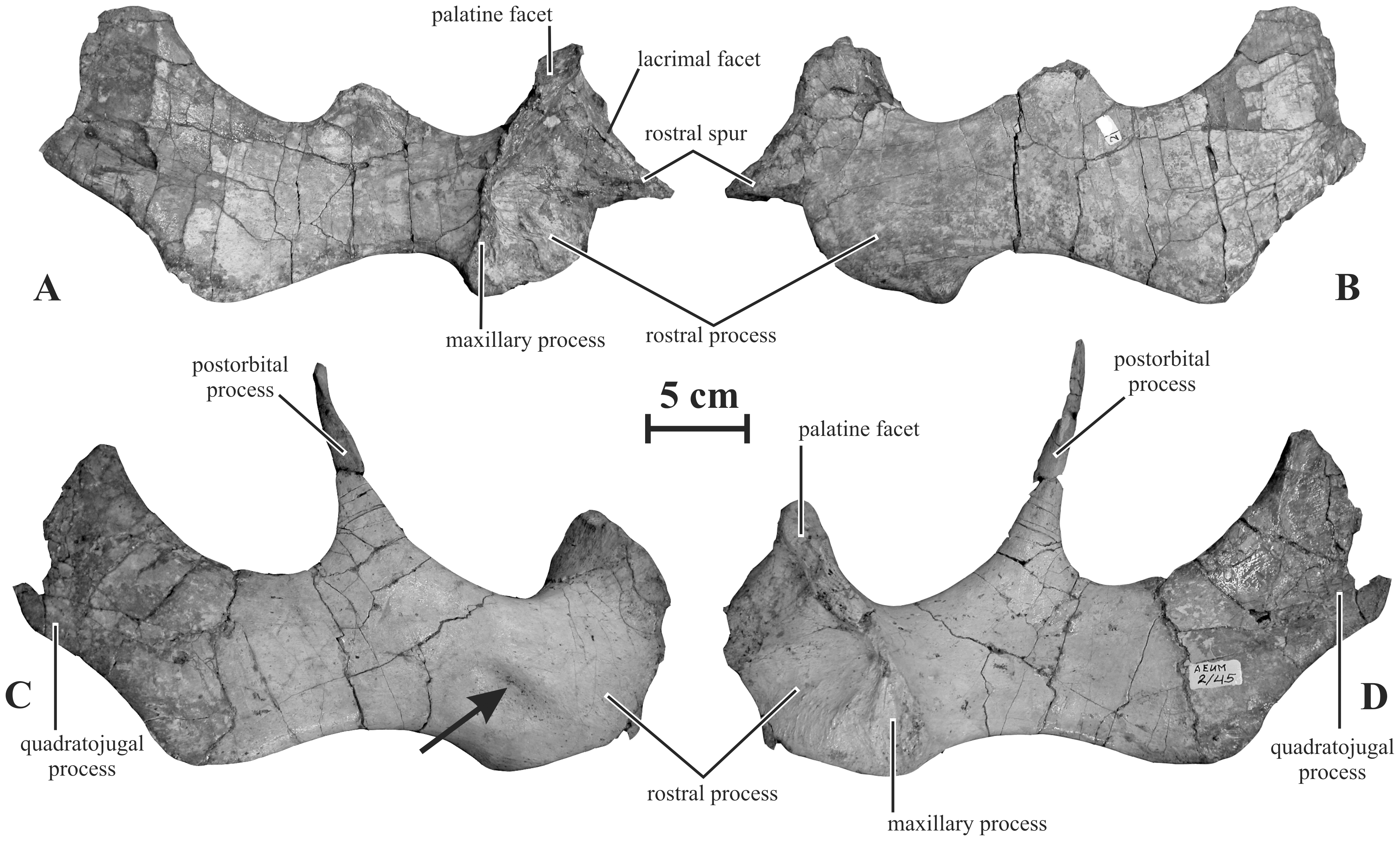 Jugals of Kundurosaurus nagornyi gen. et sp. nov. Left jugal (AENM 2/921-2) in medial (A) and lateral (B) views. Right jugal (AENM 2/45) in lateral (C) and medial (D) views.